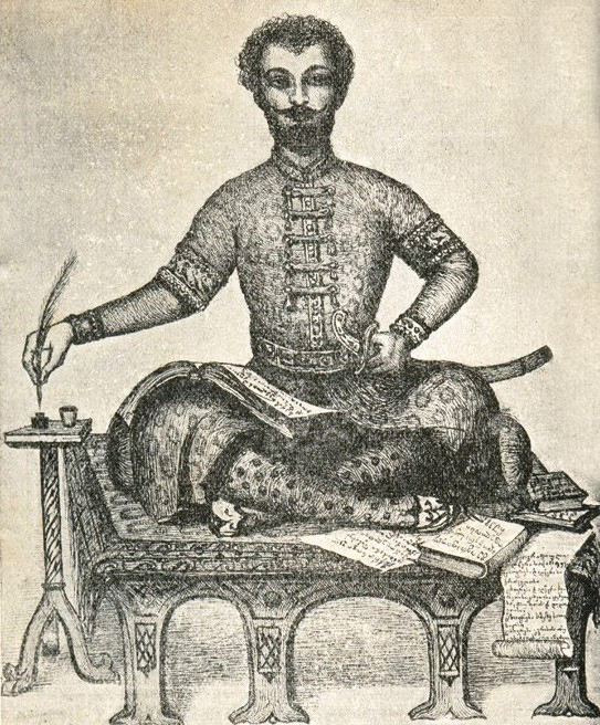 A portrait of the 18th-century Georgian historian Prince Vakhushti.